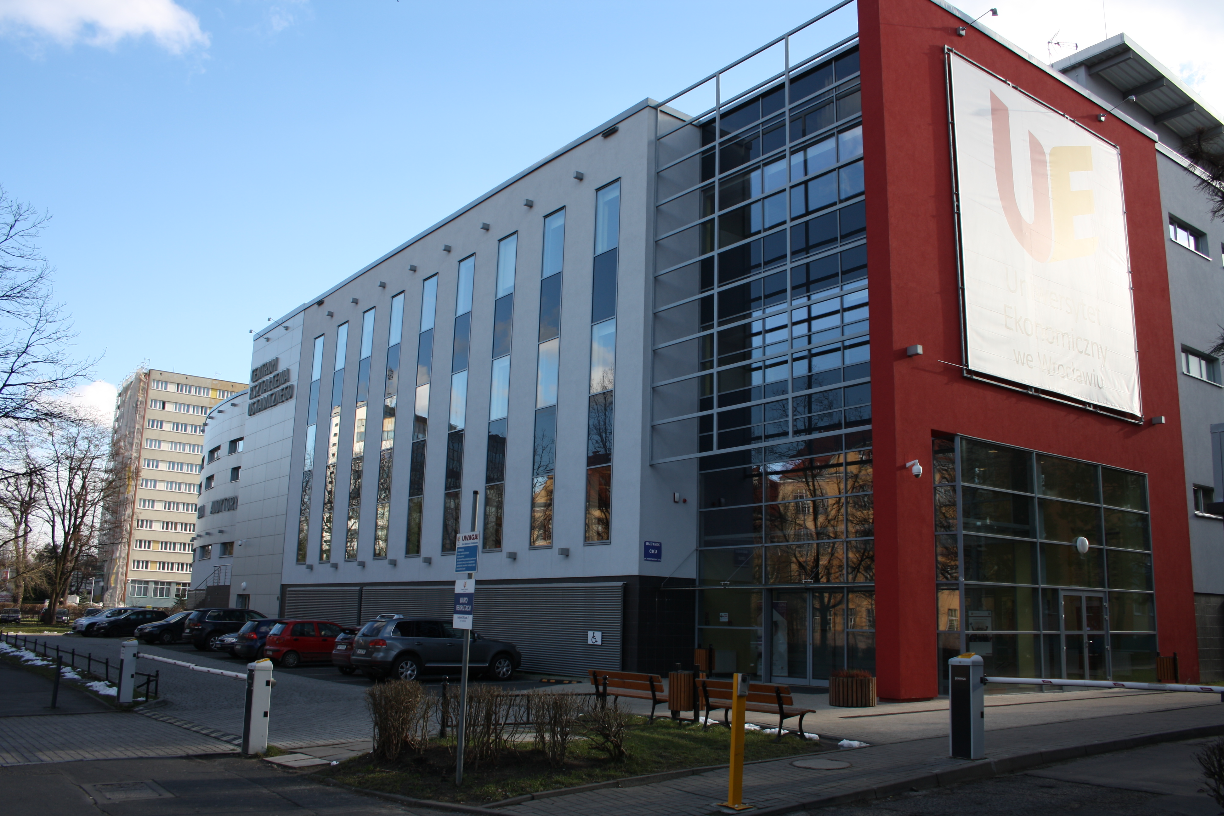 View from west on the CKU-building of the University of Economics Wroclaw